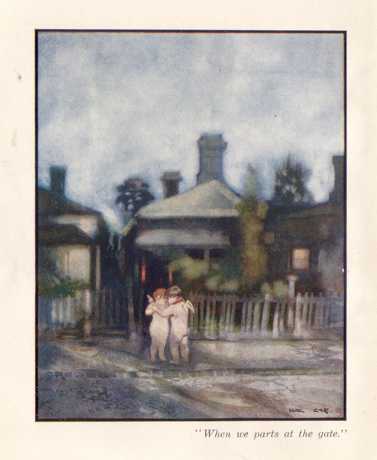 Inside cover colour plate from songs of a Sentimental Bloke by C. J. Dennis. 1 of 2 (verso). Captioned: "When we parts at the gate."